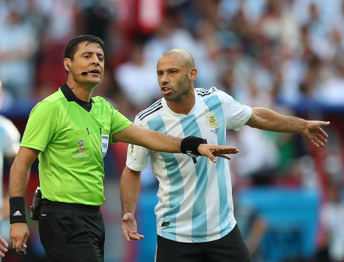 2018 FIFA World Cup Match 50, France v Argentina